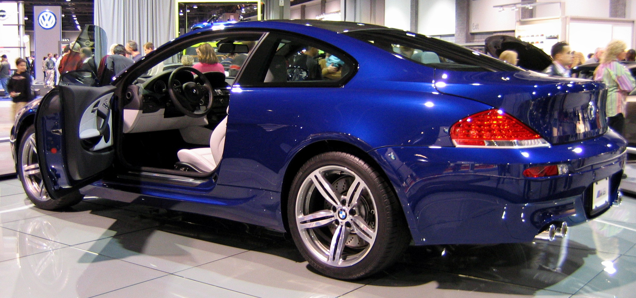 Photo by User:Aude, taken at the 2006 Washington Auto Show.